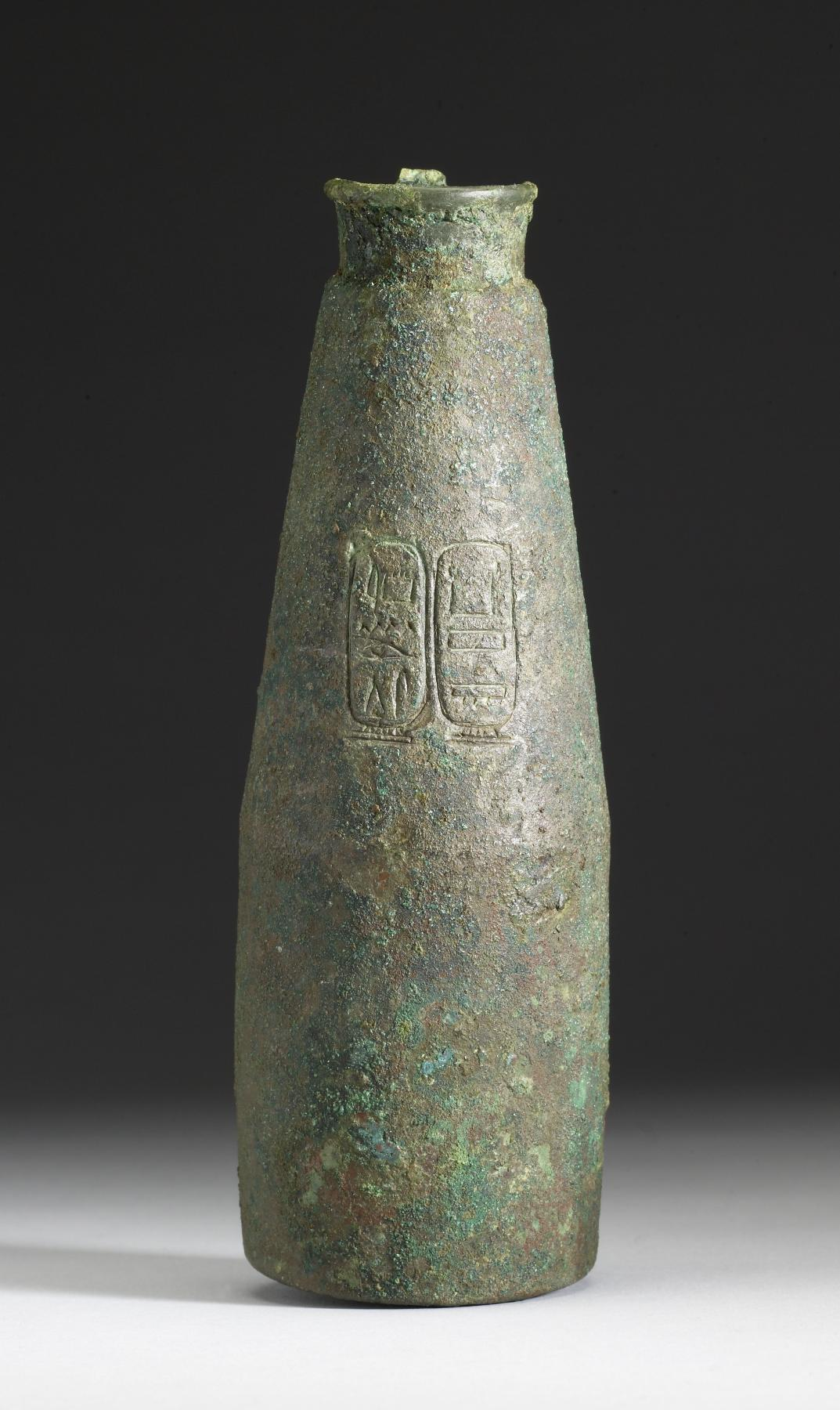 A situla is a vessel that held liquid offerings used in rituals for the gods. This one is inscribed with the names of King Kashta and his daughter Amenirdis. Kashta was the first Nubian king who ruled over Kush (Nubia) and parts of Egypt during the 25th dynasty. His daughter Amenirdis I was the "God's wife of Amen" at Thebes-the most important priestly office in Egypt at that time. This small situla might have been used by Amenidris I as a child during her education as a priestess.